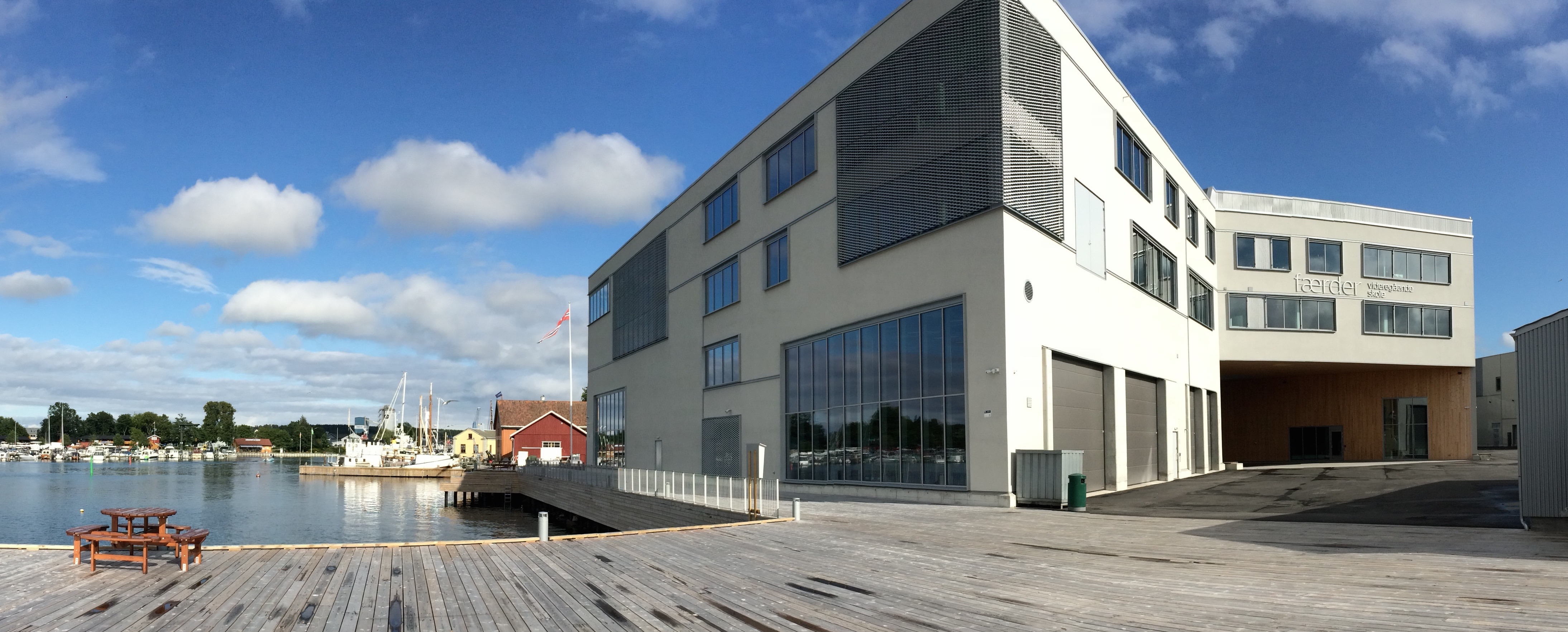 Byfjorden Kanalen Kystkultursenter Faerder videregaaende skole Kystkultursenter Toensberg 2015-07-21 cropped panorama 01